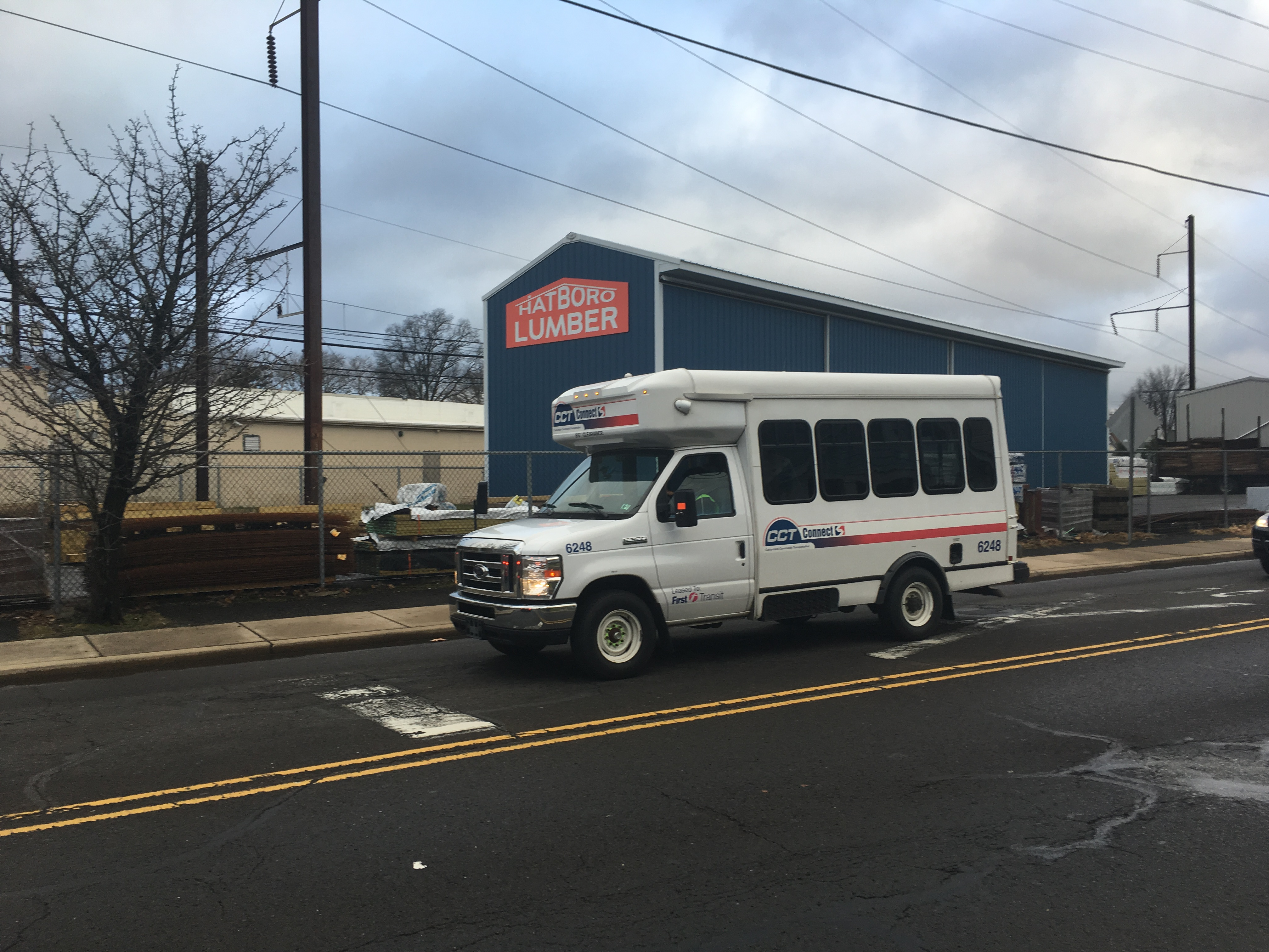 SEPTA CCT Connect paratransit Ford E-350 bus 6248 operates along Pennsylvania Route 332 (Jacksonville Road) in Hatboro, Pennsylvania